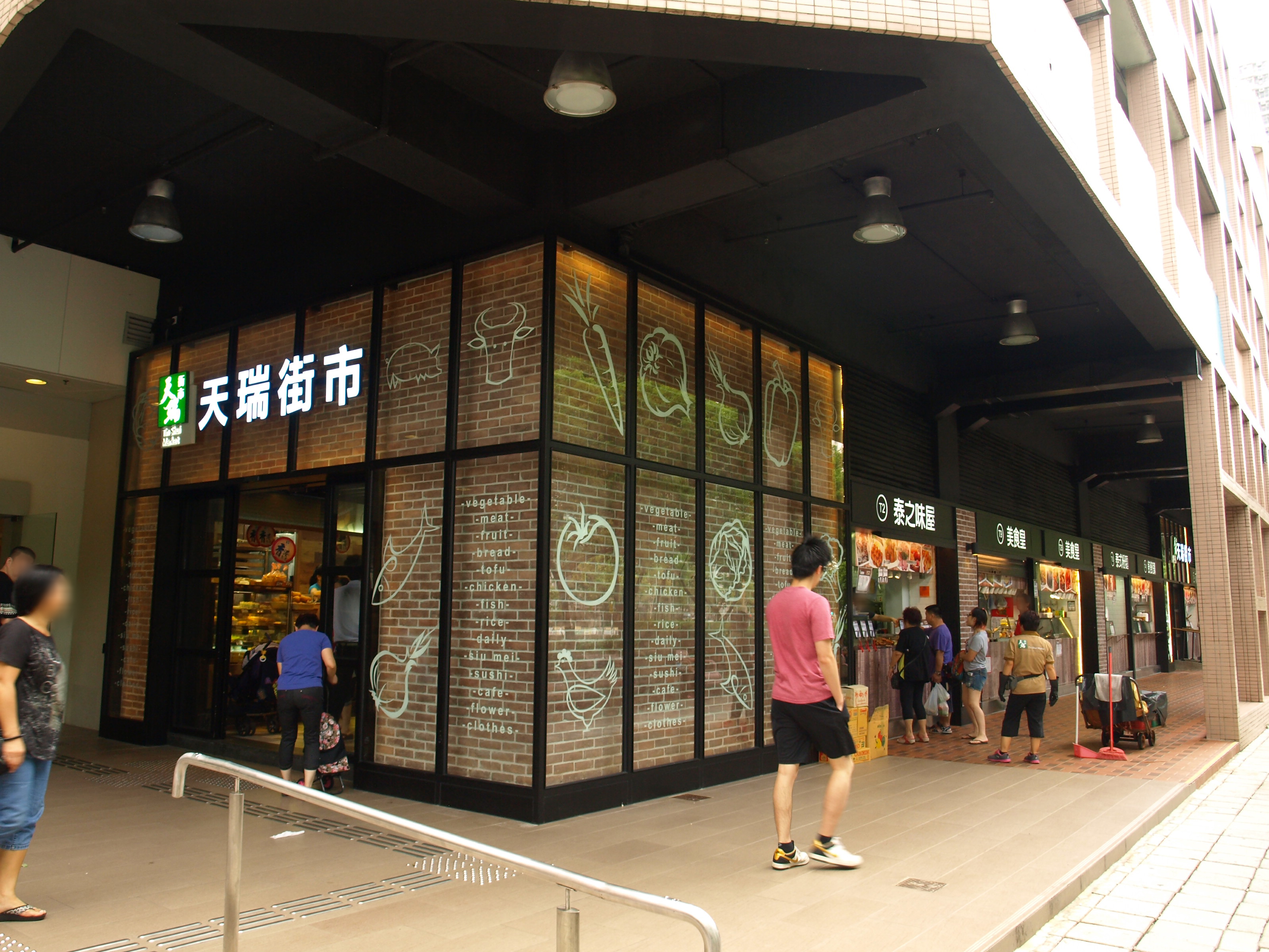 Tin Shui Market after renew in 2014